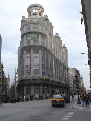 Building of CCOO of Catalonia situated in Via Laietana, 16. 08020 Barcelona (Spain).